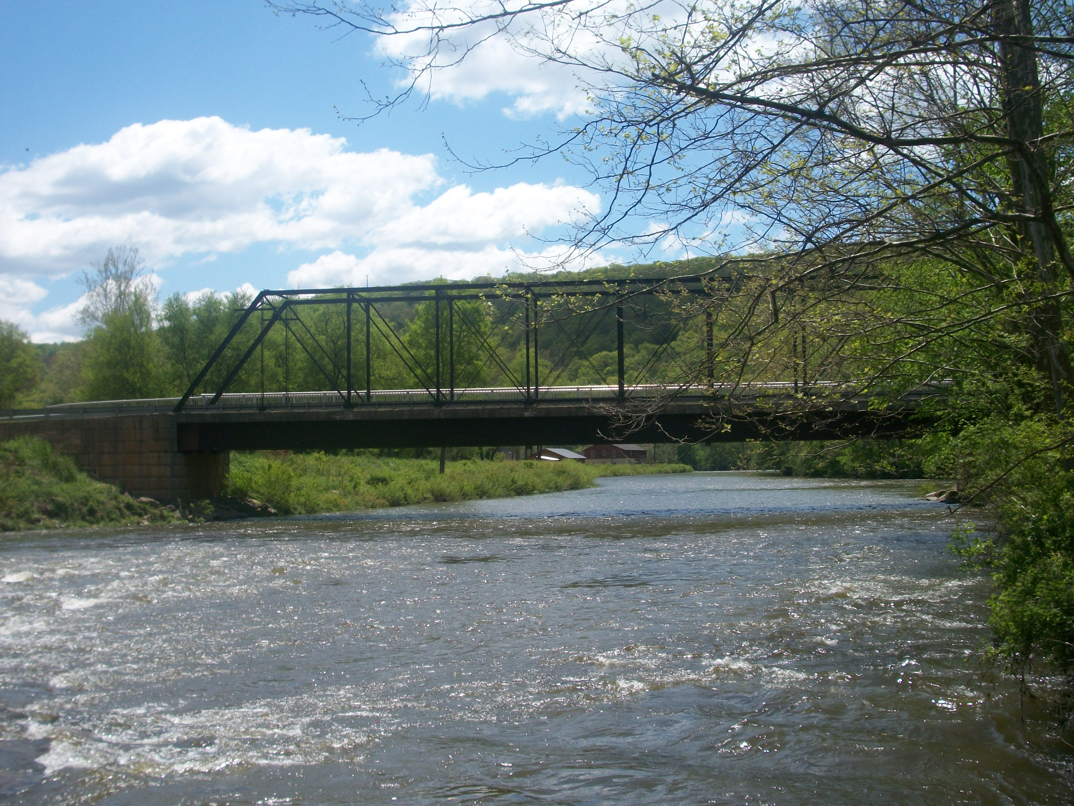 Taken May 19, 2010.